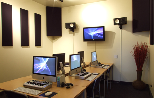 Studio C Lab Room, Mid-Ocean School of Media Arts